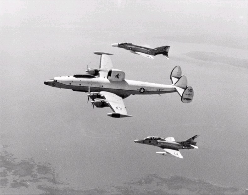 A U.S. Navy Lockheed EC-121K Warning Star (BuNo 141292) from electronic warfare squadron VAQ-33 Firebirds in formation with a Douglas EA-4F Skyhawk and a McDonnell F-4B Phantom II off the coast of Virginia (USA) in April 1973. The EC-121 was the last "Warning Star" flying on active duty, being retired on 25 June 1982.